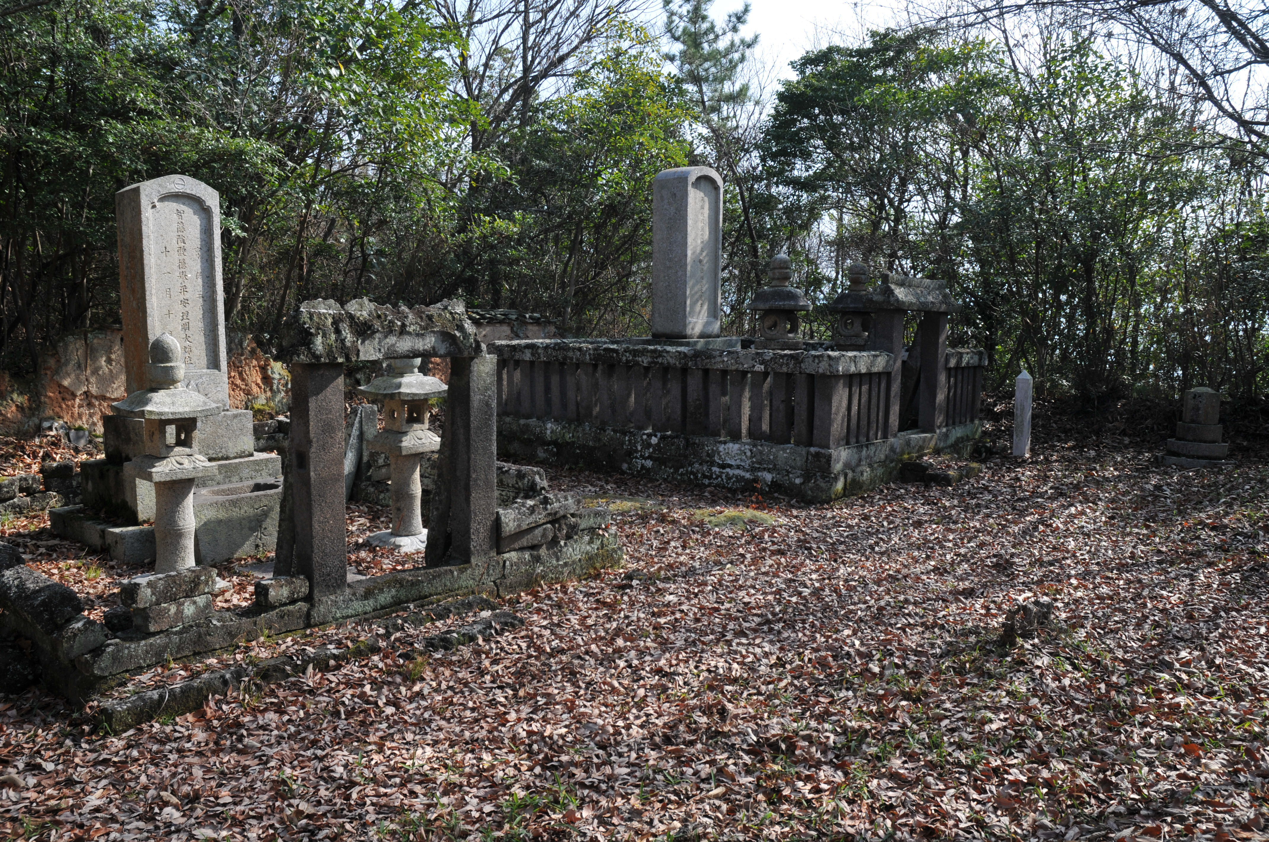 grave of Igi Tadaoki(6th family head) and his wife